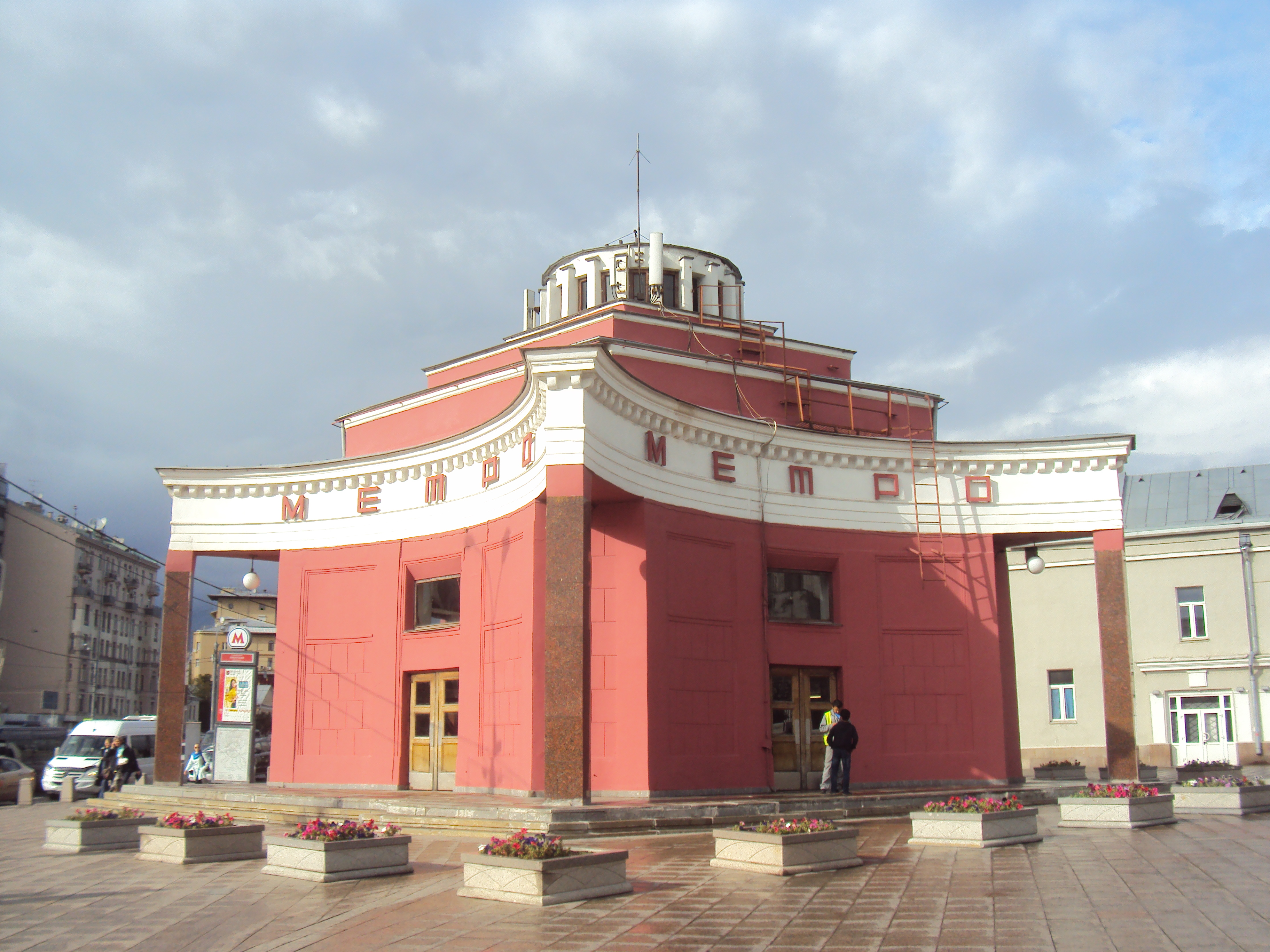 Station of the Moscow metro Filevsky line, Moscow